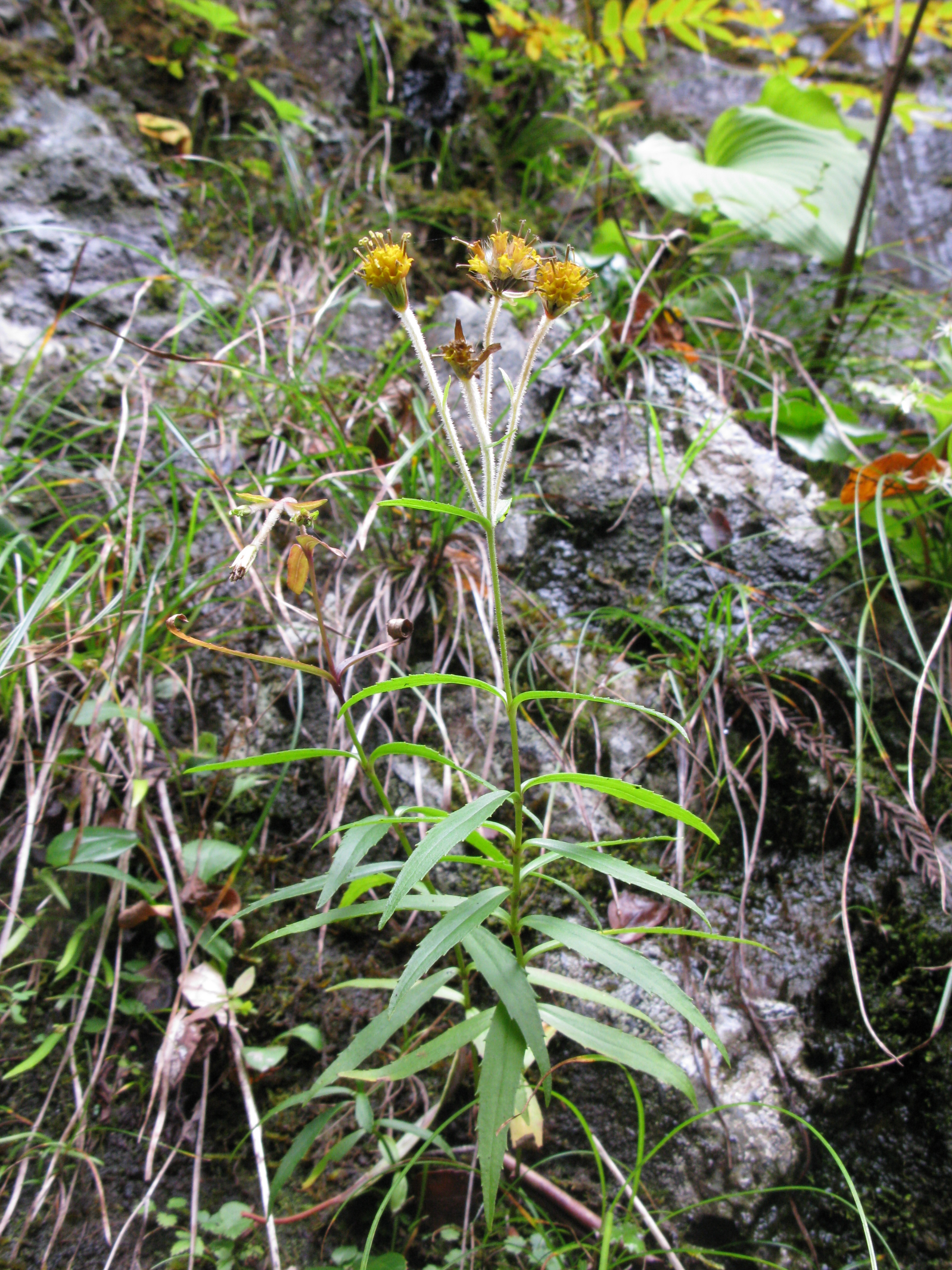 Arnica mallotopus,Aizu area,Fukushima pref.,Japan